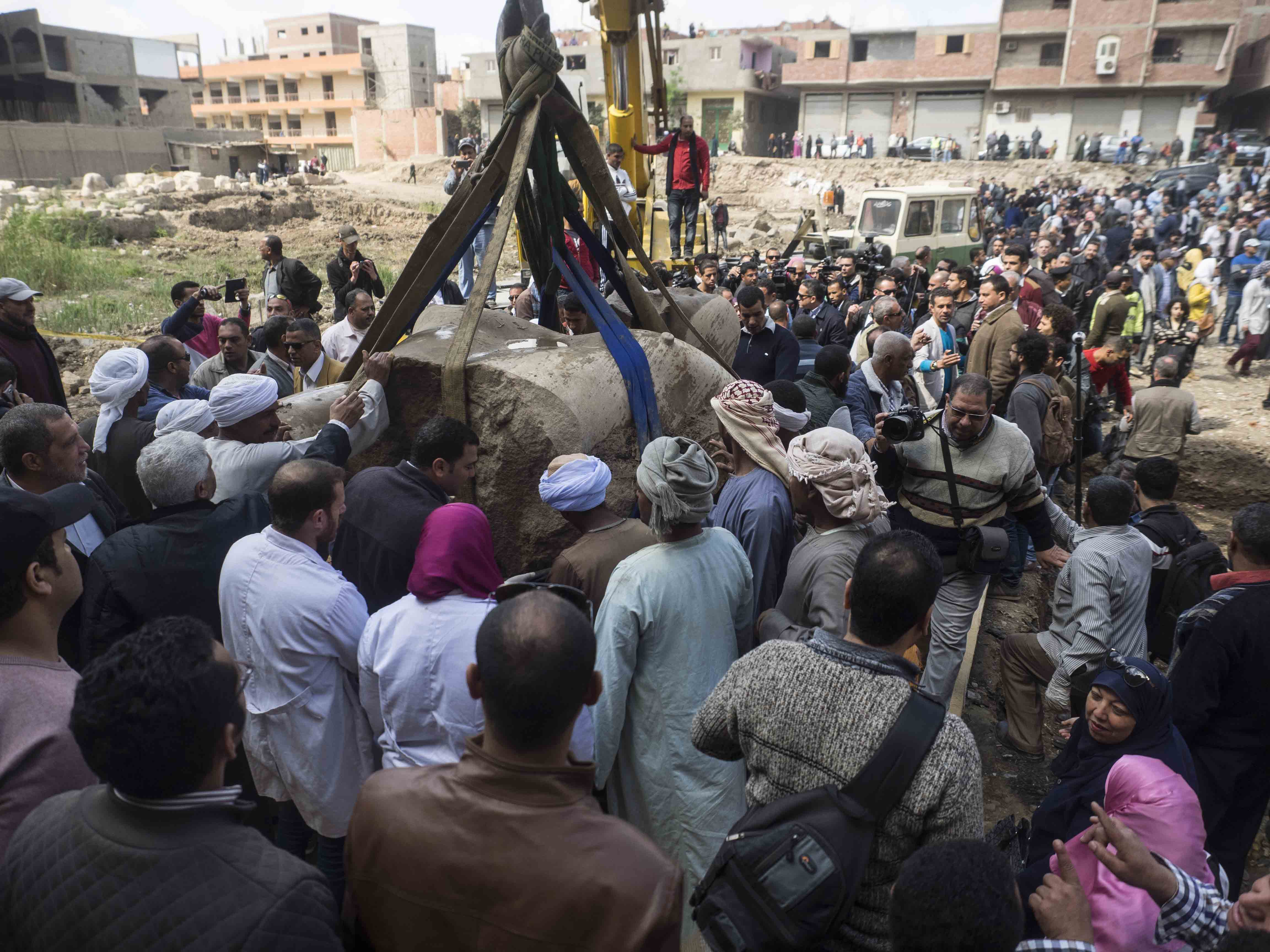 The statue is 8-meter high and weighs 8.5 tons and made from quartzite stone.